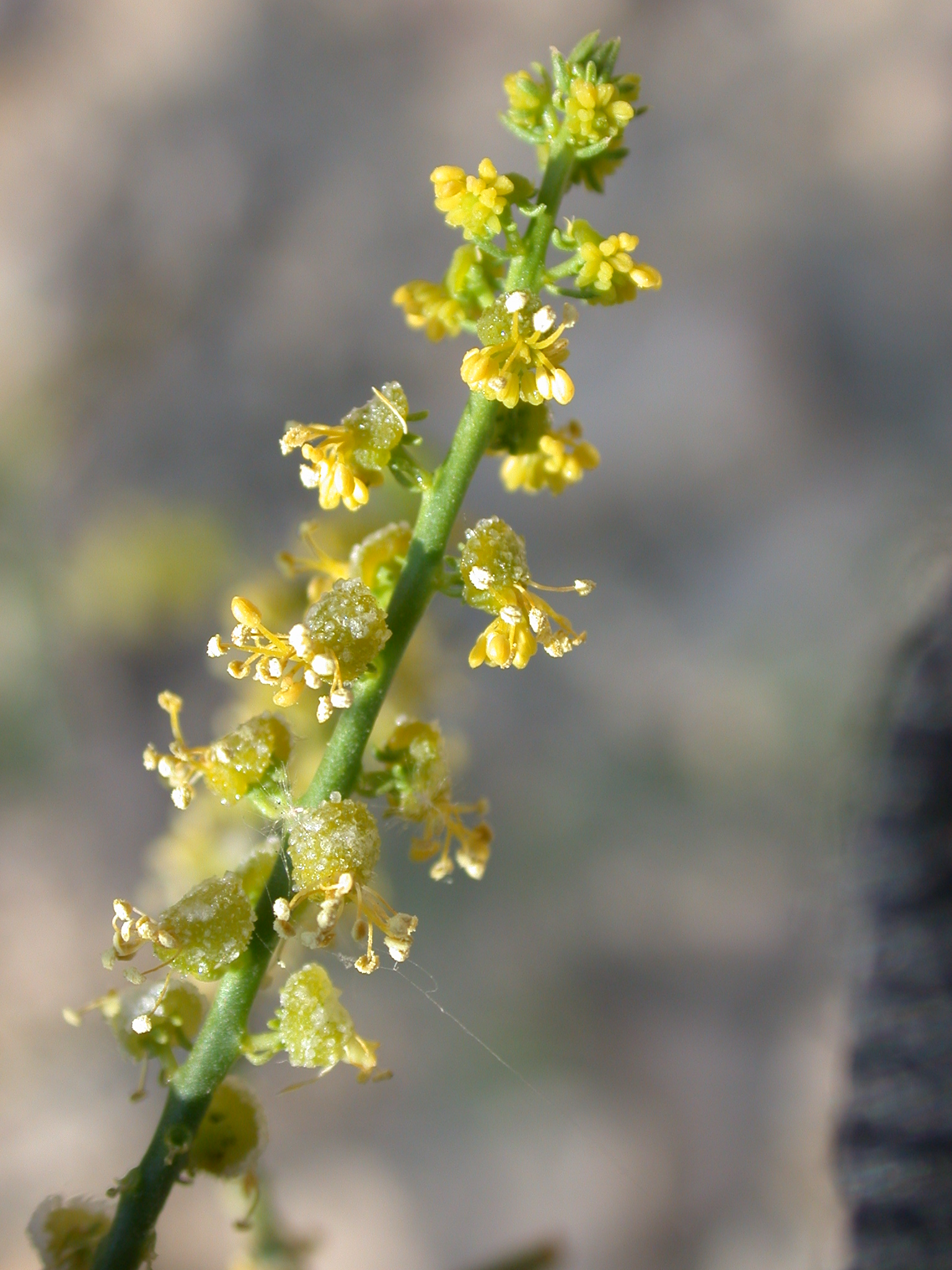 Ochradenus baccatus Delile (רכפתן מדברי), Judean Desert, Israel, December 2006.